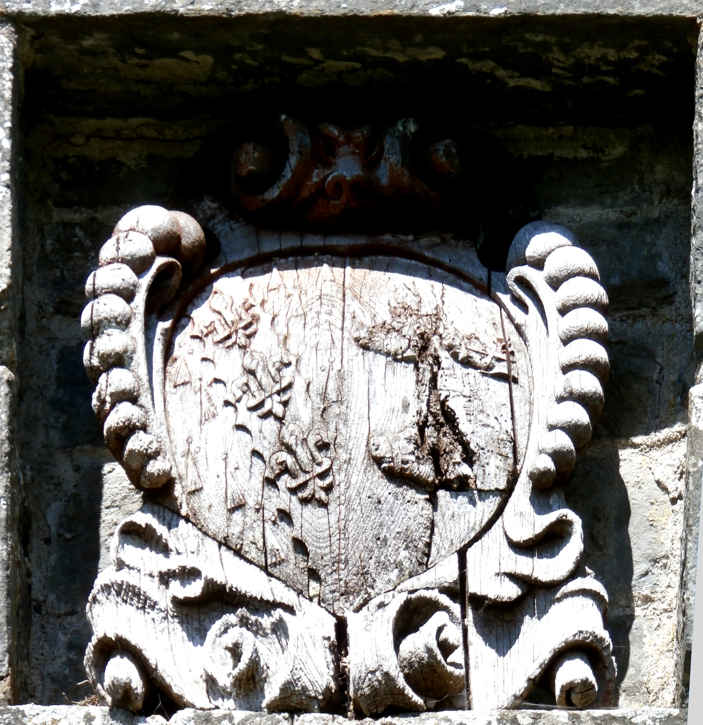 Heraldic escutcheon, carved in wood and now much decayed by age, in rectangular stone niche above the front door of Colleton Barton, Chulmleigh, Devon, showing the arms of Bury of Colleton: Ermine, on a bend engrailed azure three fleurs-de-lys or impaling Bere of Huntsham, whose canting arms were: Argent, three bear's heads erased sable muzzled or. It represents the marriage of Humphry III Bury, who in 1679 married Johanna Bere, daughter of Thomas Bere (1631-1680), lord of the manor of Huntsham, Devon.